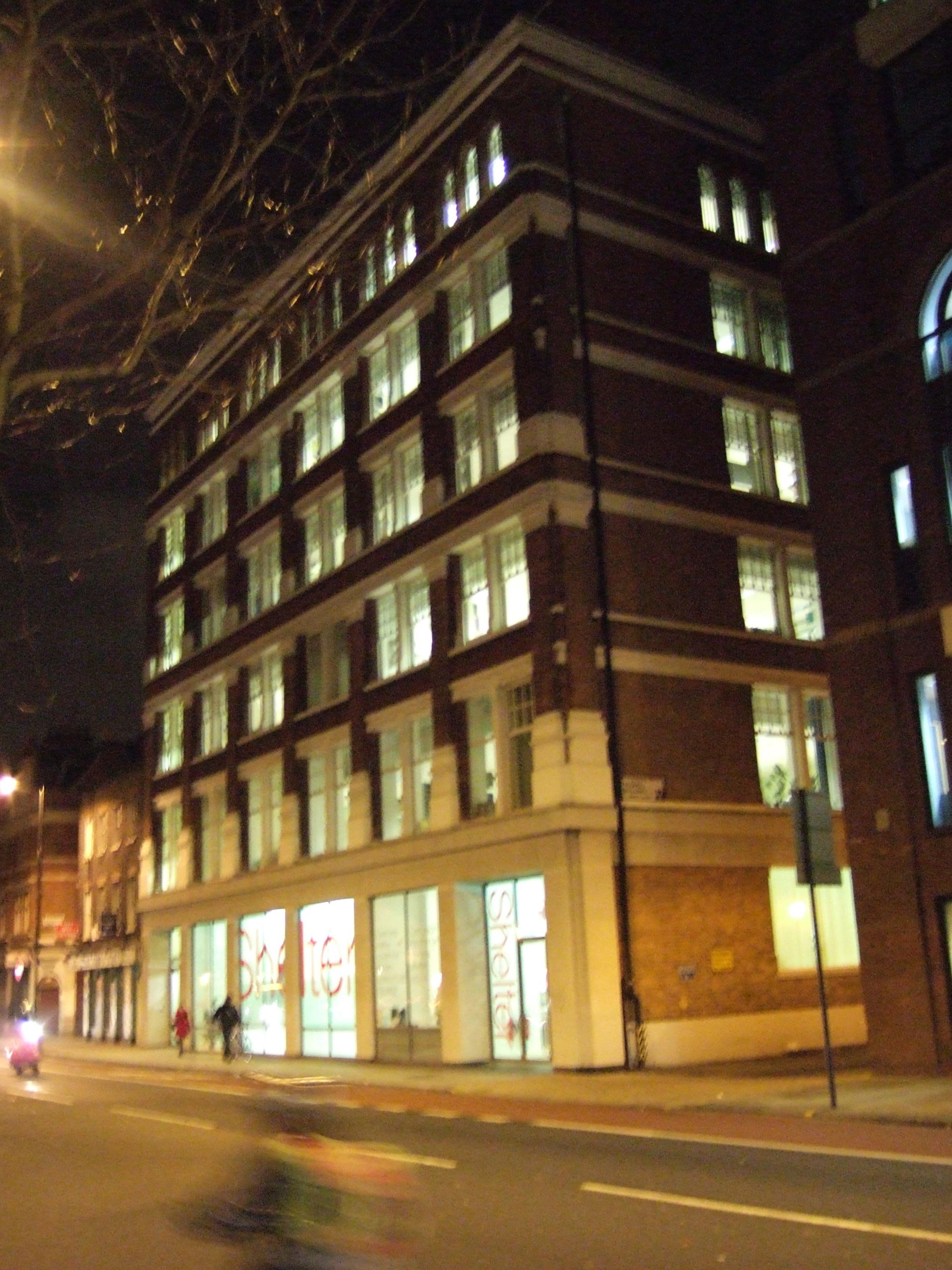 Shelter 88 Old Street, London, EC1V 9HU. Photograph taken at night.